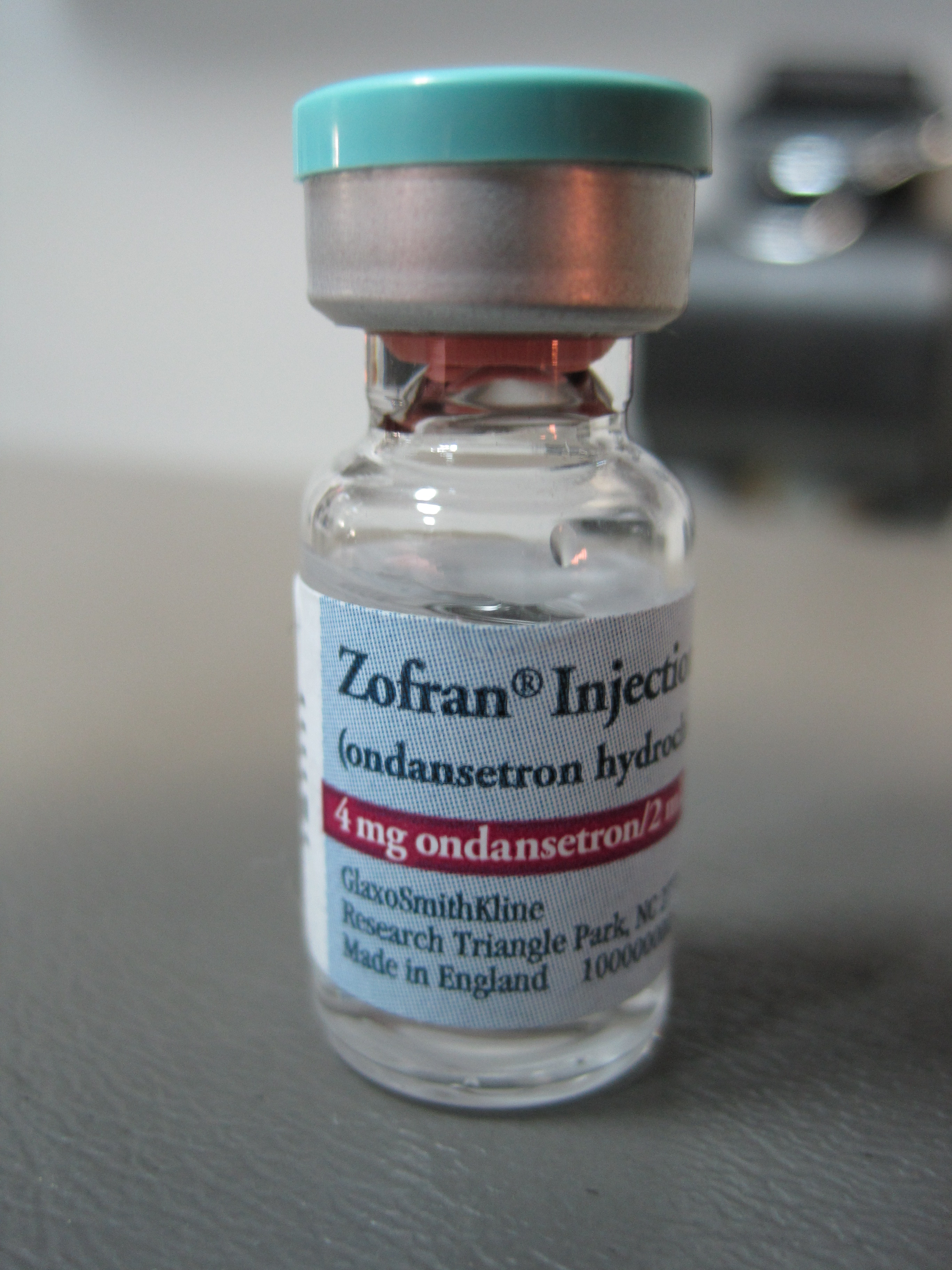 Ondansetron preparation, single dose vial for intravenous administration.